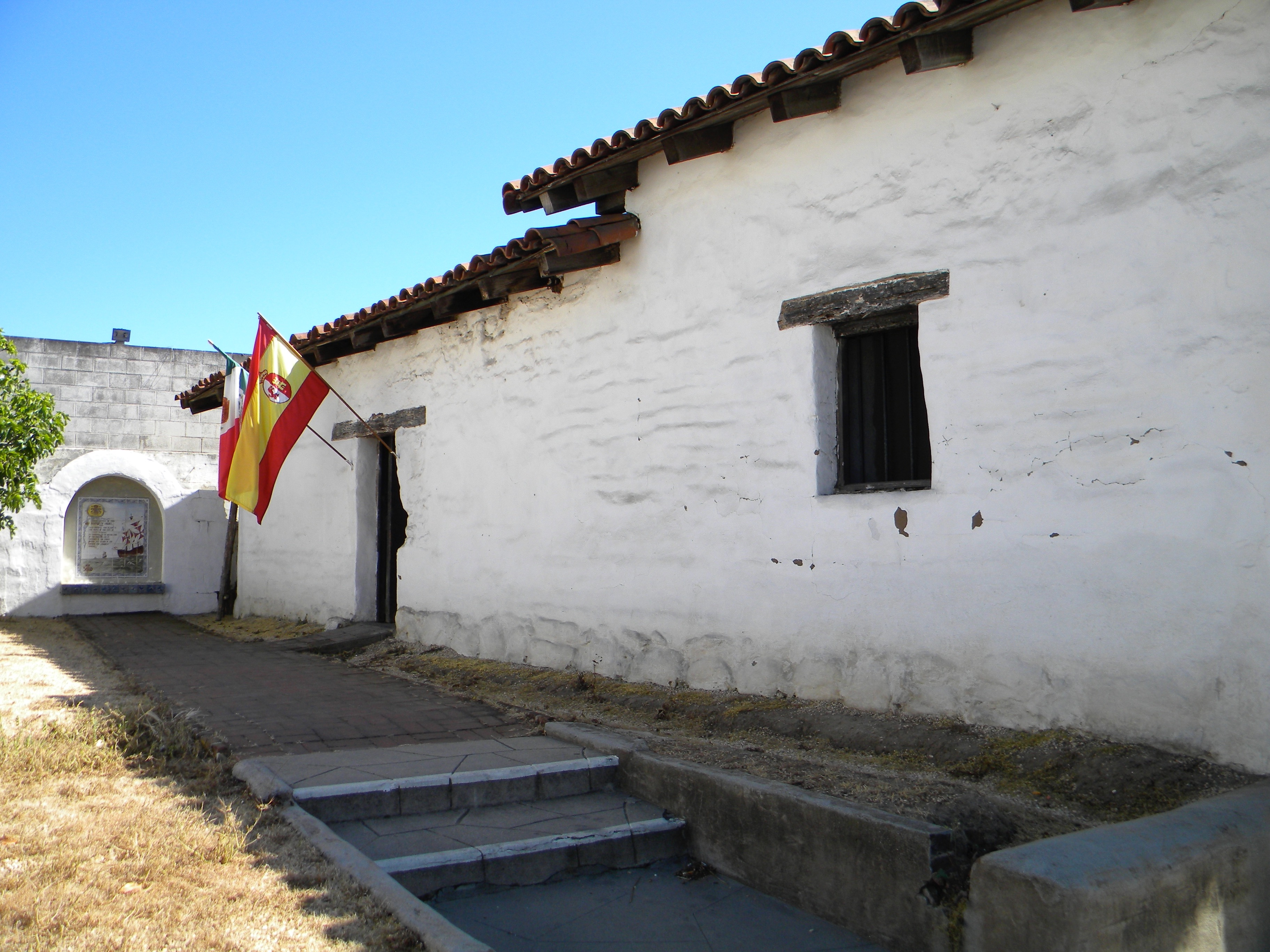 El Cuartel (Guard's House) is the last remnant of the fort in the quad area.